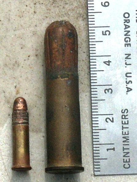 .44 caliber extra long shotgun cartridge, manufactured by Peters, (right) with .22 caliber long rifle for comparison